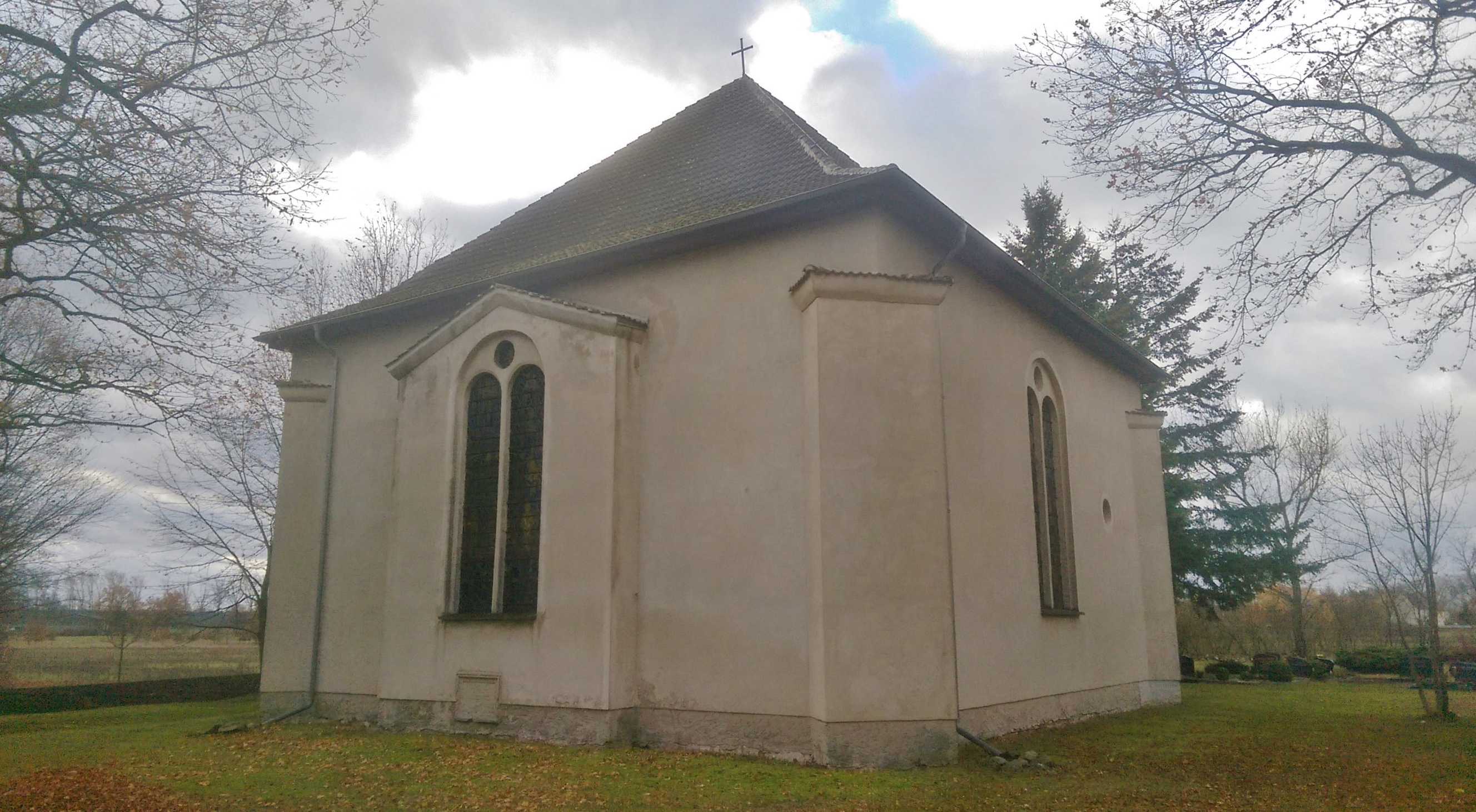 North-eastern view of church in Neuholland, Liebenwalde municipality, Oberhavel district, Brandenburg state, Germany